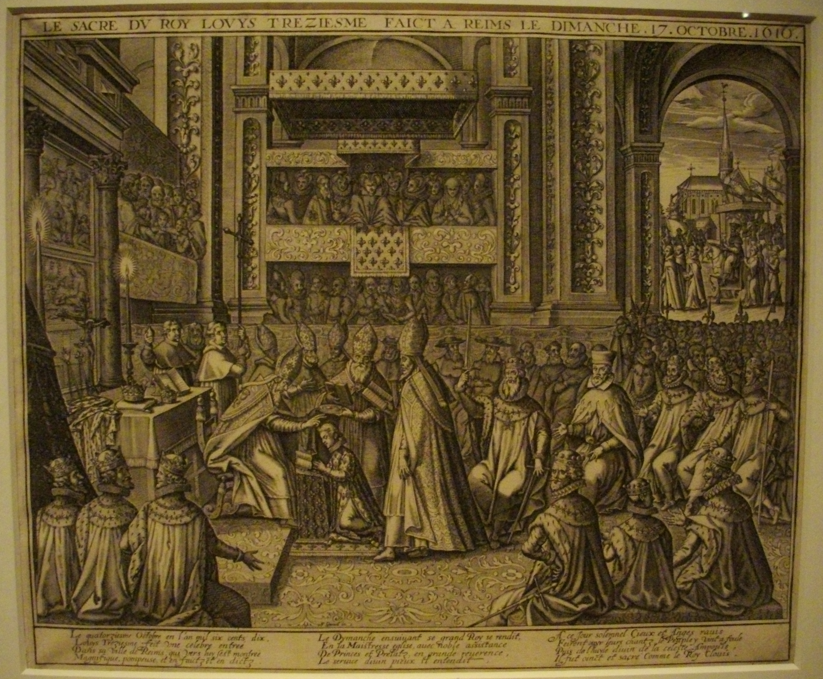 2014 exhibition « Royal Coronations, from Louis XIII to Charles X » in the palais du Tau of Reims (Marne, France) : Albert Haelwegh, Coronation of Louis XIII, October the 17th 1610 : anointings, etching, ca. 1610